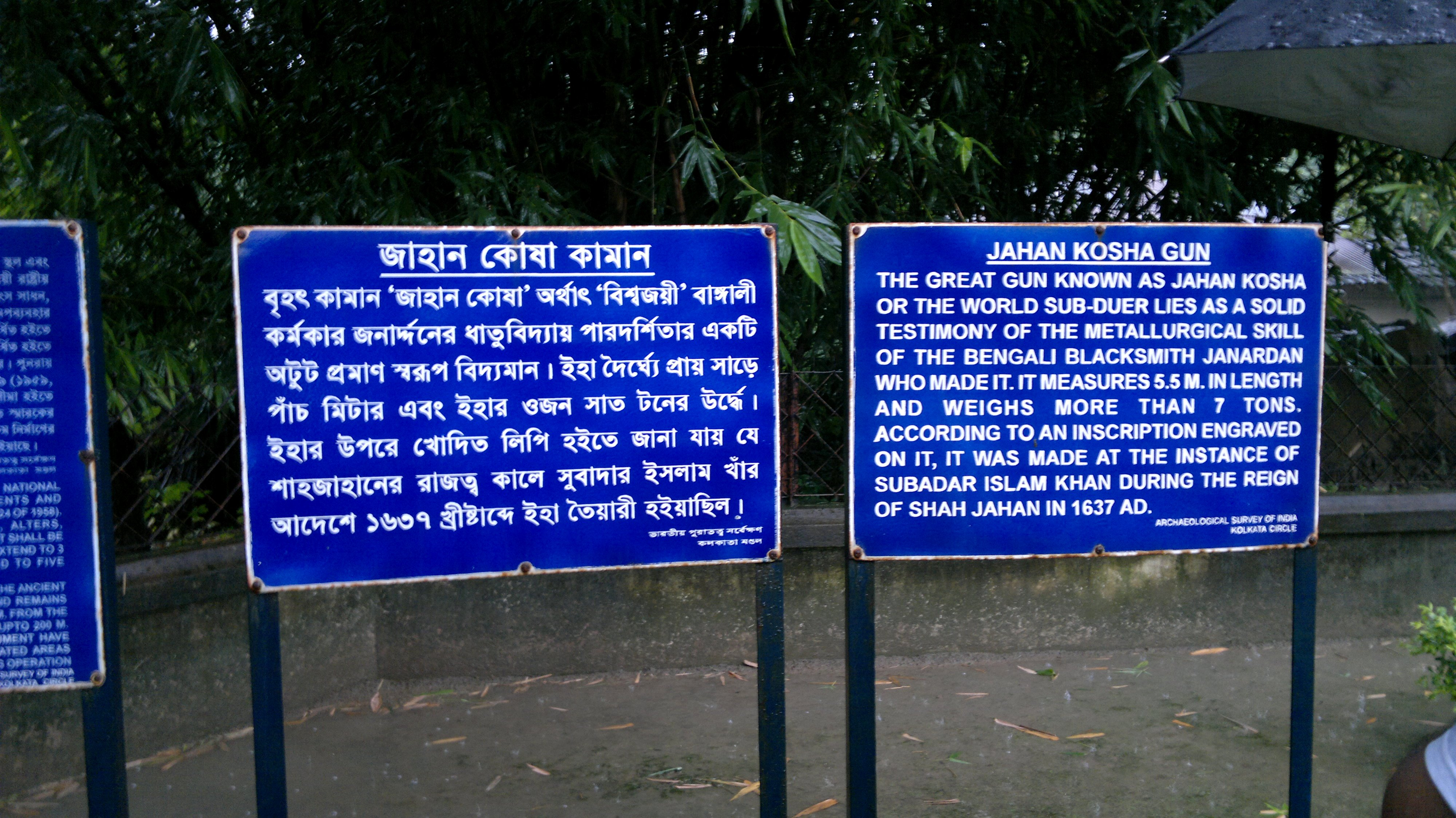 Jahan Kosa Gun